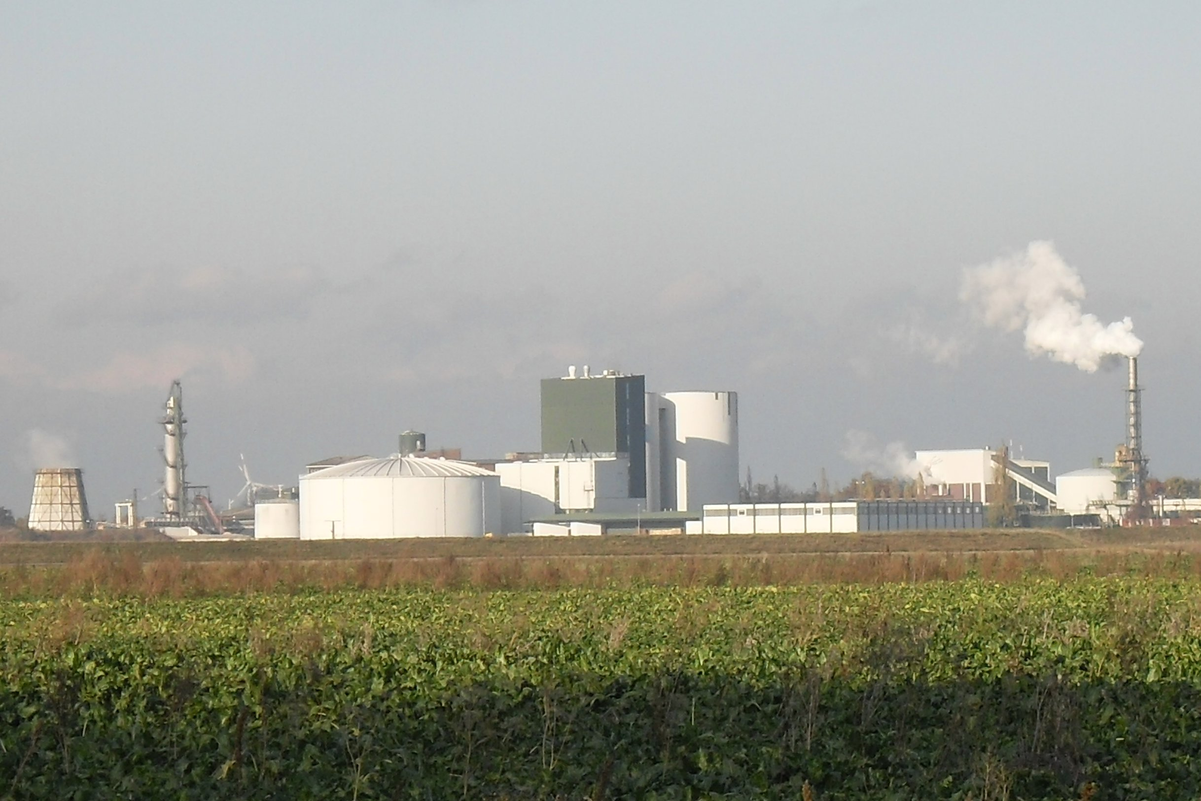 The sugar factory in Brottewitz, Sachsen, Germany. On the left is the cooling tower, to the right of it the lime kiln